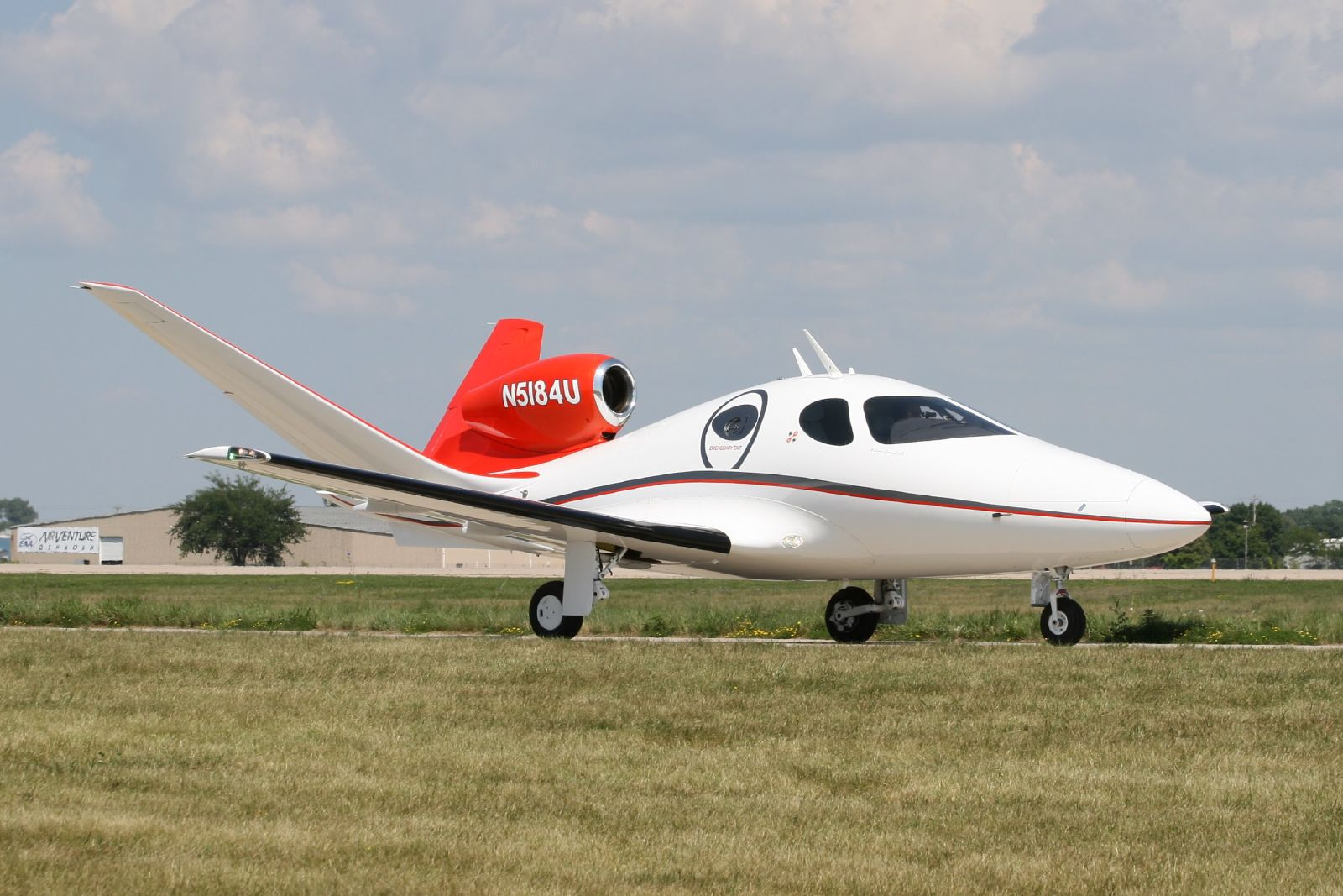 The Eclipse Concept Jet (ECJ), a single-engine four-place aircraft created by Eclipse Aviation for evaluating the emerging single-engine jet marketplace. . (AirVenture 2007)